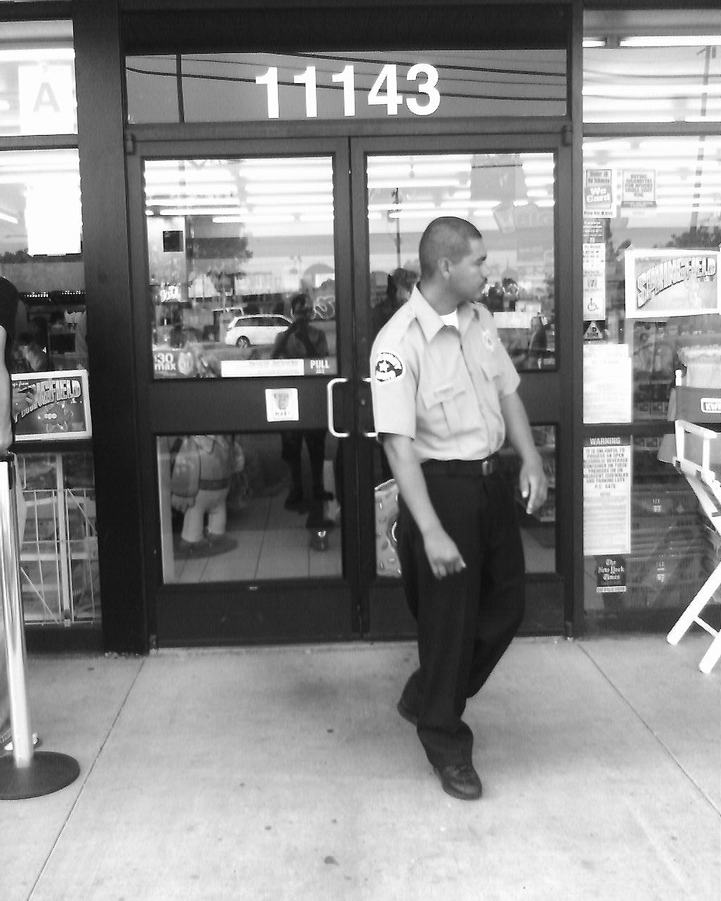 A security guard at a 7-Eleven store in Los Angeles doing crowd control during a promotion for The Simpsons Movie which saw the convenience store change its appearance into a Kwik-E-Mart